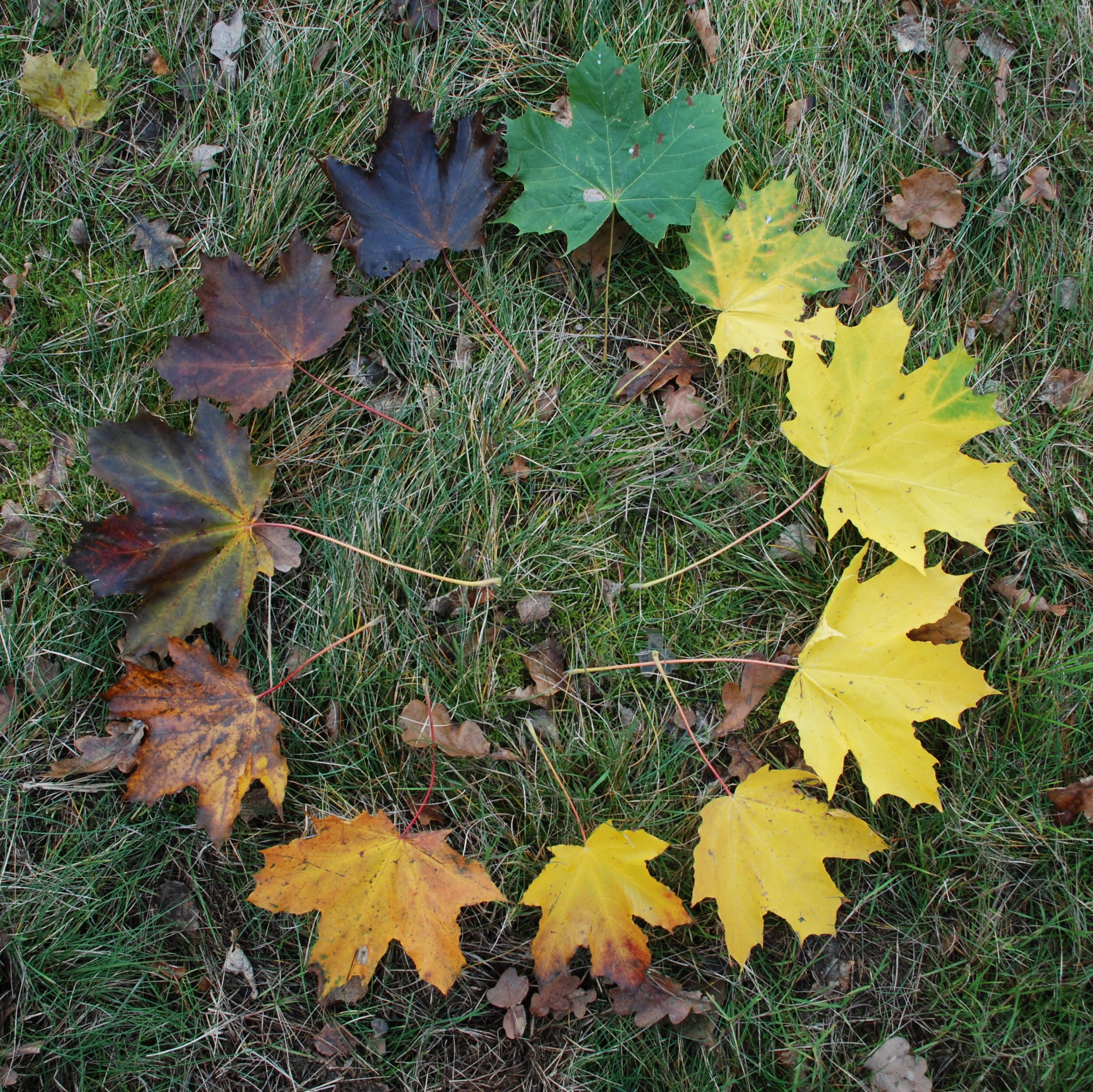 autumn leaves (Norway Maple)